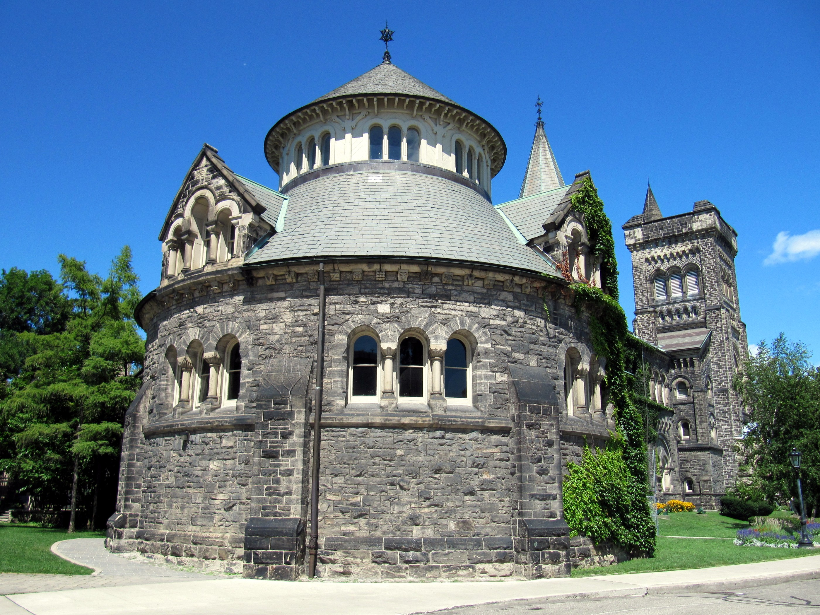 Some old building on the U of T campus. I'm pretty sure it's King's College but, er, I don't really know the campus and I didn't check the sign or anything :P.